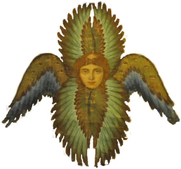 Seraph, in the Blaj Greek-Catholic Cathedral.